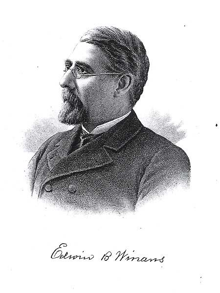 Edwin Baruch Winans (May 16, 1826 – July 4, 1894) was a U.S. Representative from and the 22nd Governor of the US state of Michigan.